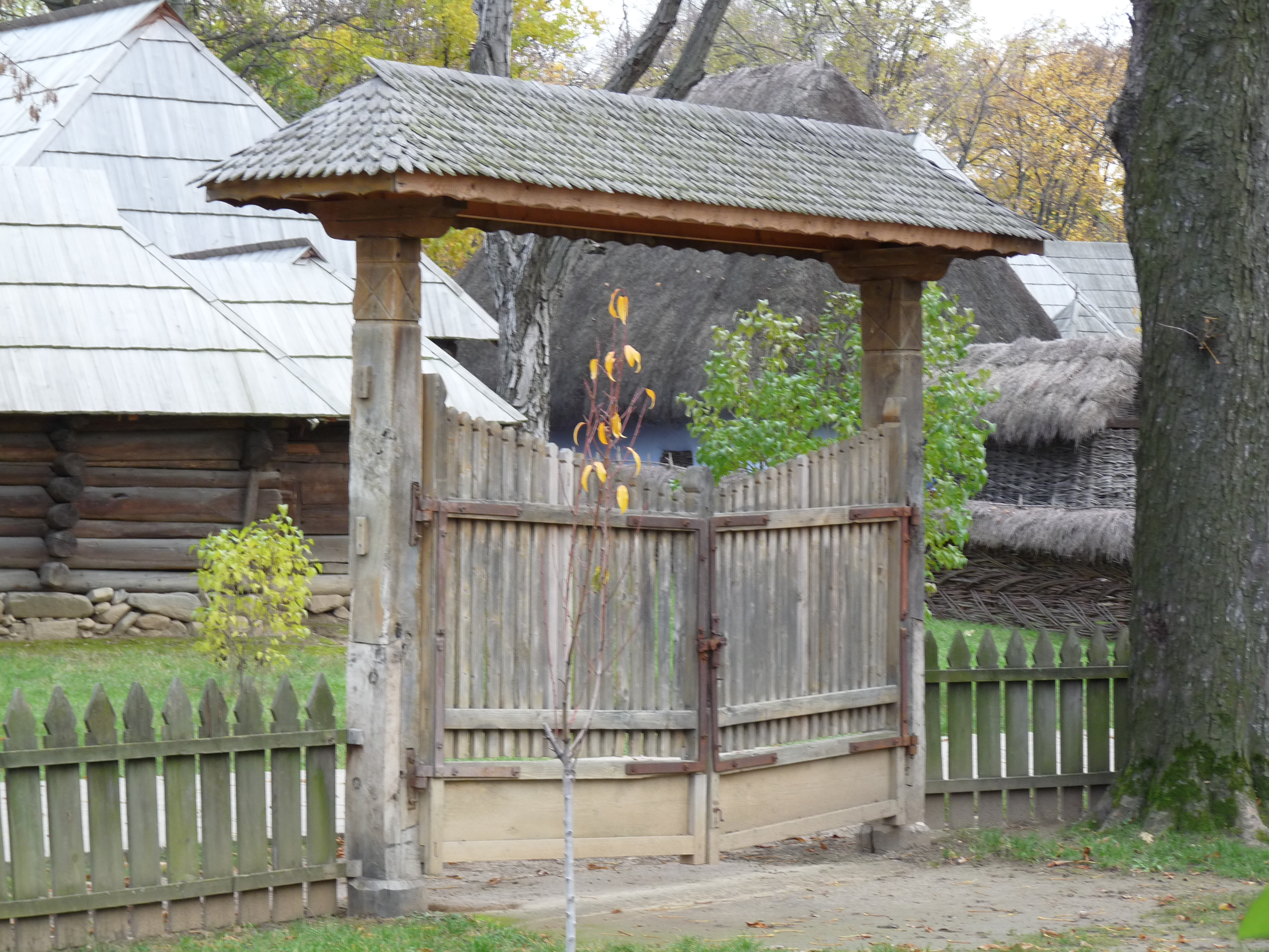 18th century household from Chiojdu Mic, Buzău County, Romania, exhibited in the Village Museum in Bucharest. The gate.